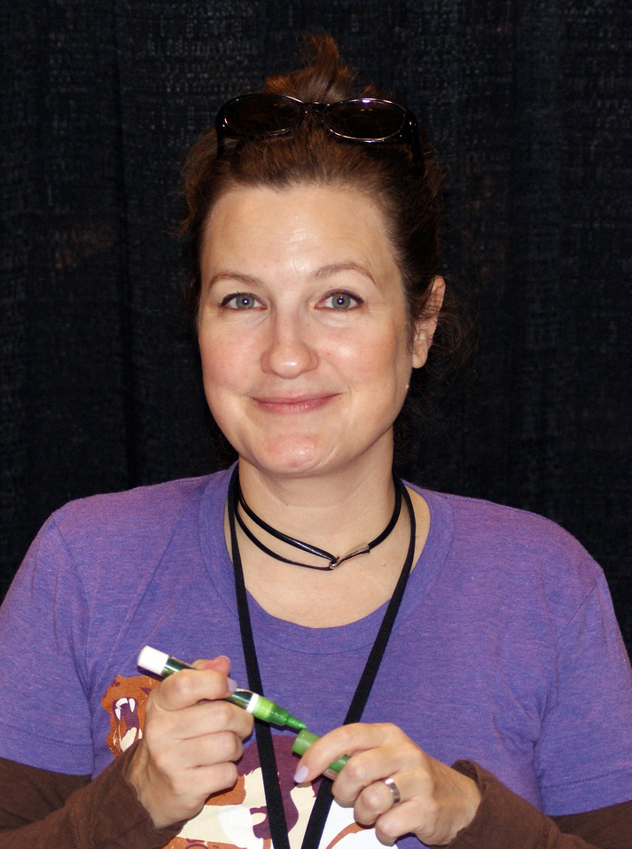 Amanda Conner attending the Calgary Comic & Entertainment Expo in BMO Centre, Calgary, Alberta, Canada.